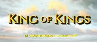 Screenshot from the trailer for the film King of Kings.